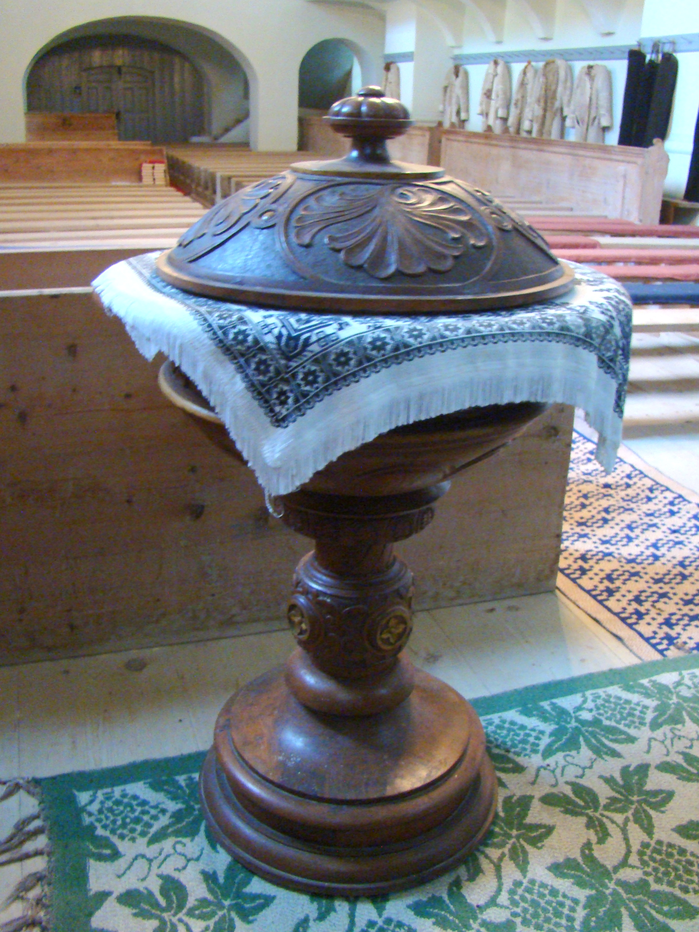 Fortified church in Ticușu Vechi, Brașov County, Romania